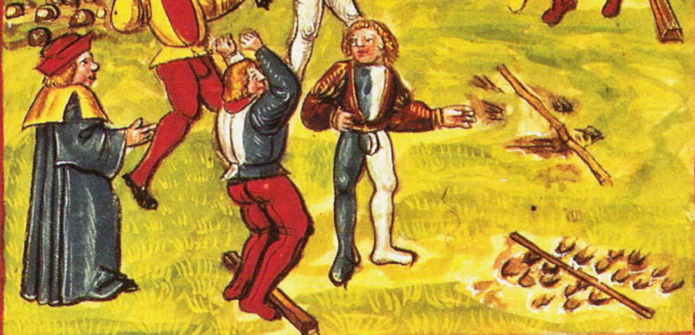 standing long jump, as depicted in the Luzerner Schilling (1513).